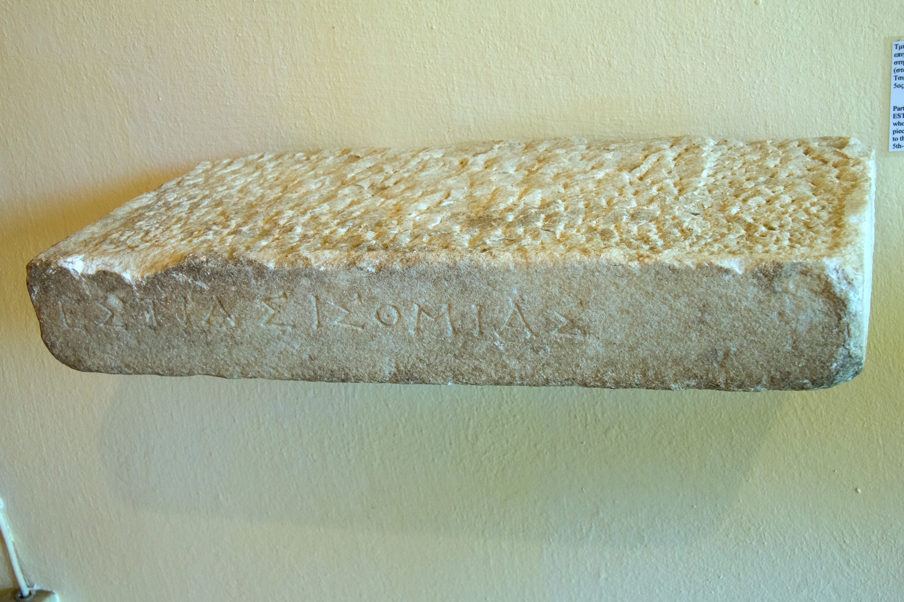 Part of a marble rectangular altar (eschara) with inscription ESTIAS ISTHMIAS, 5th – 4th century BC. The altar was dedicated to the goddess Hestia, who was given the epithet Isthmia, implying that an isthmus (a narrow piece of land) existend between island Despotiko (Moschos) and the islet Tsimintiri, located of the east of Despotiko. Archaeological Museum of Paros.